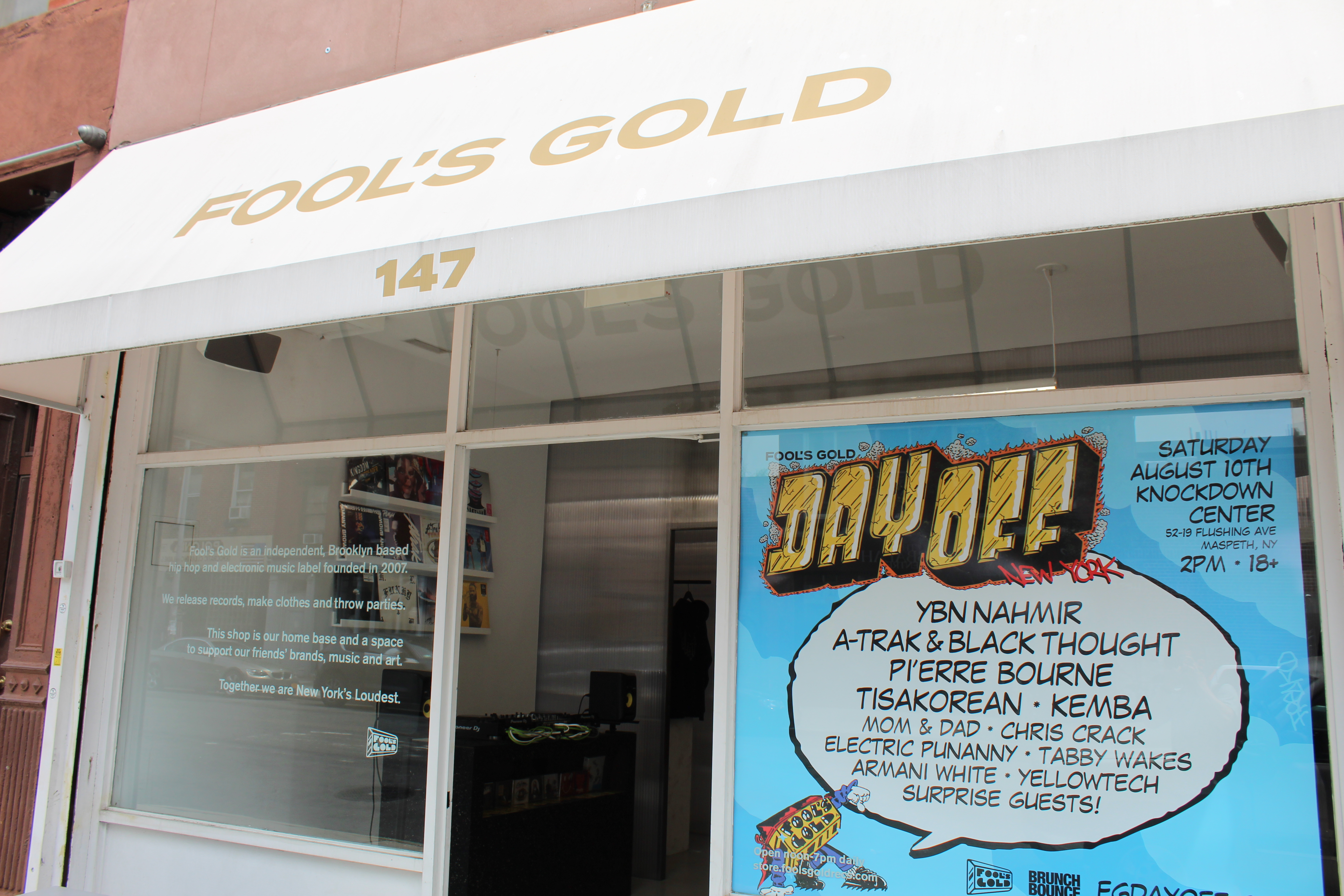 The front of Fool's Gold which is a space that sells clothing and records in North Williamsburg, Brooklyn